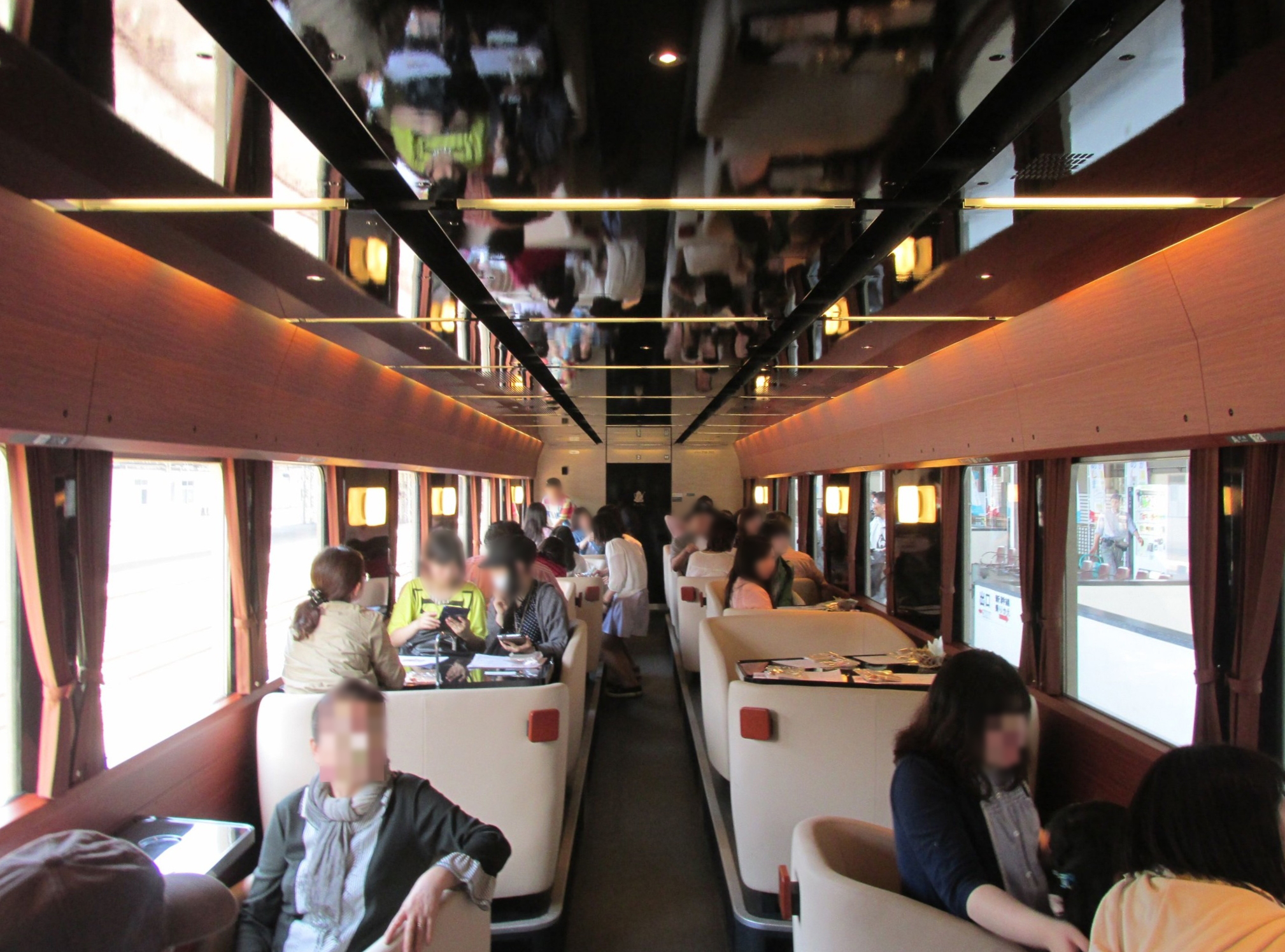 The interior of car KuMoHa 719-701 of the JR East 719-700 series "FruiTea" excursion train set